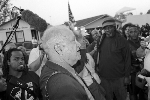 Self-avowed white supremacist Richard Barrett at the Sept. 20th, 2007 Jena Six Rally in Jena, Louisiana. Photograph by Michael David Murphy